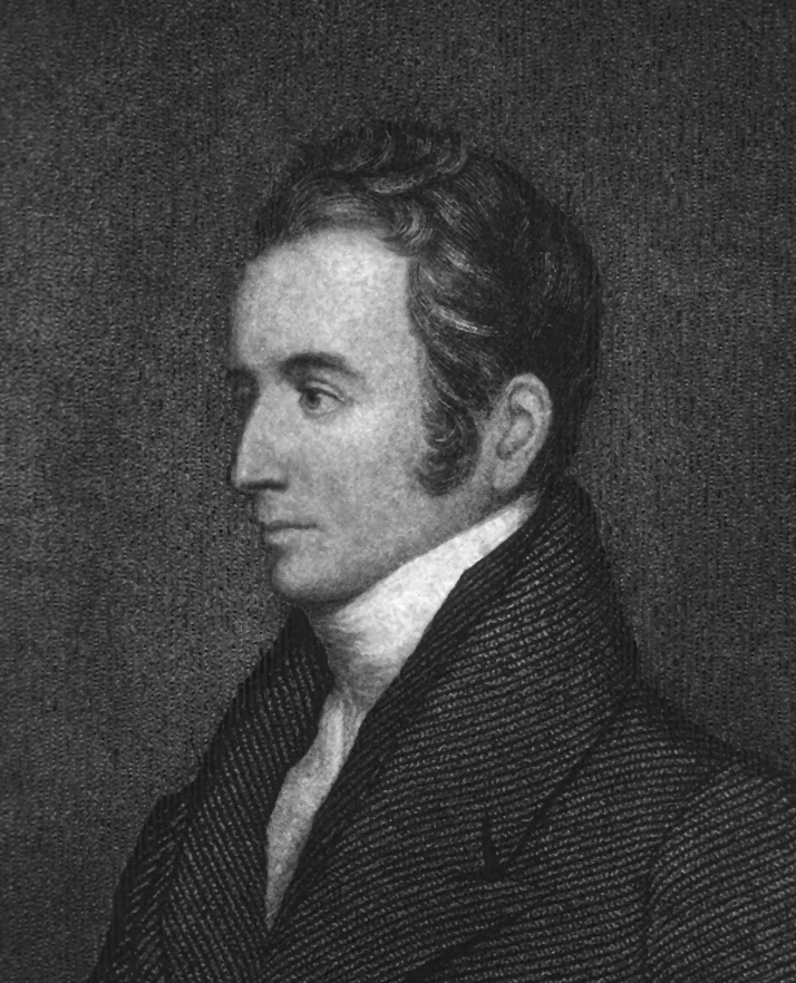 Jehudi Ashmun, acting agent of the American Colonization Society in Liberia